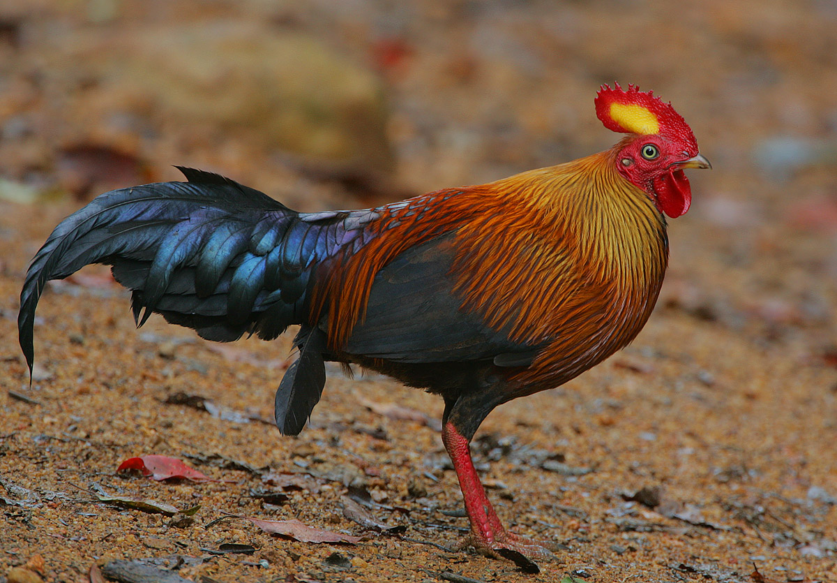 I wasn't prepared for just how attractive these forest gamebirds are. Image taken in Sinharaja Rain Forest in the south-west of Sri Lanka.